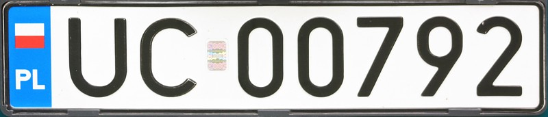 Polish military registration plate (series 2000-2006).